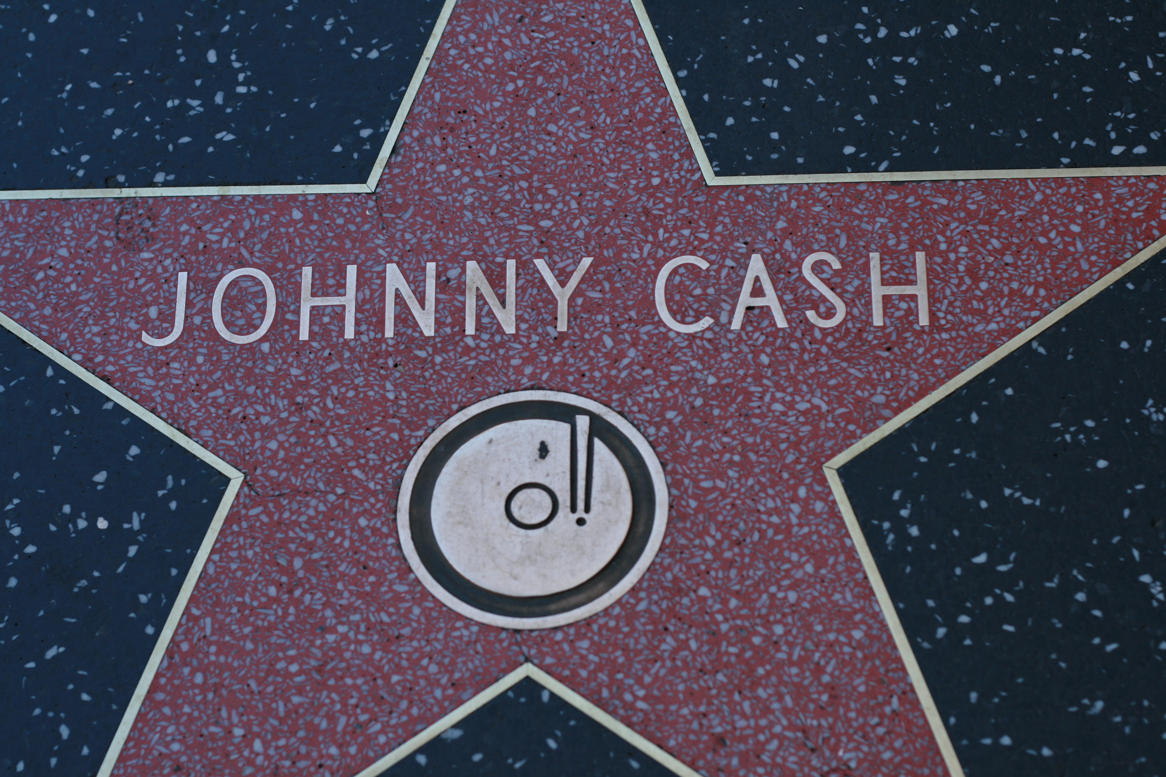 Johnny Cash's star on Hollywood Walk of Fame